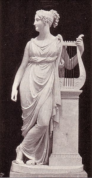 Terpsicore by Canova